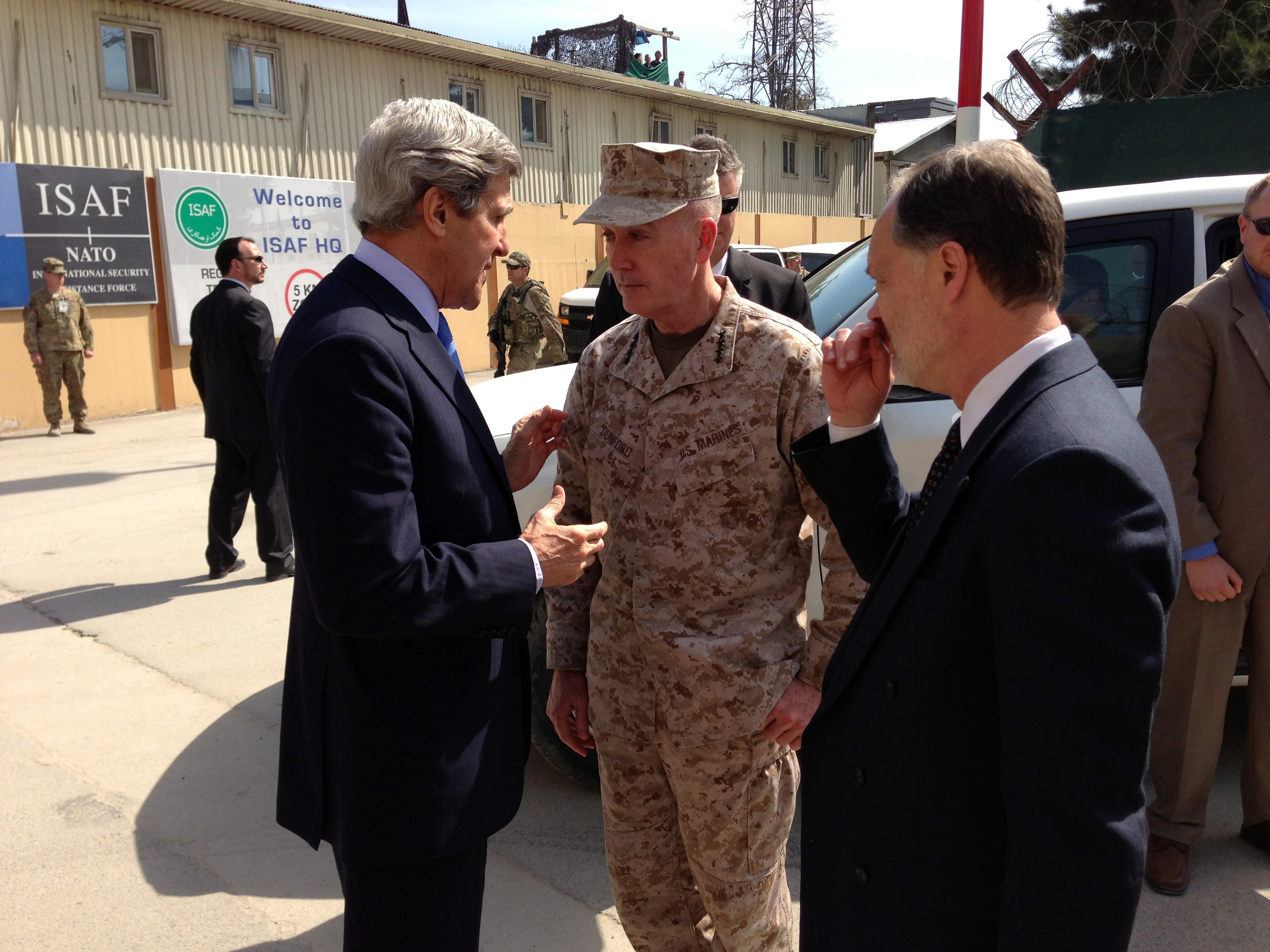 U.S. Secretary of State John Kerry speaks with U.S. Marine Corps General Joseph Dunford, as U.S. Ambassador to Afghanistan James Cunningham listens, in Kabul, Afghanistan, March 26, 2013. [State Department photo/ Public Domain]